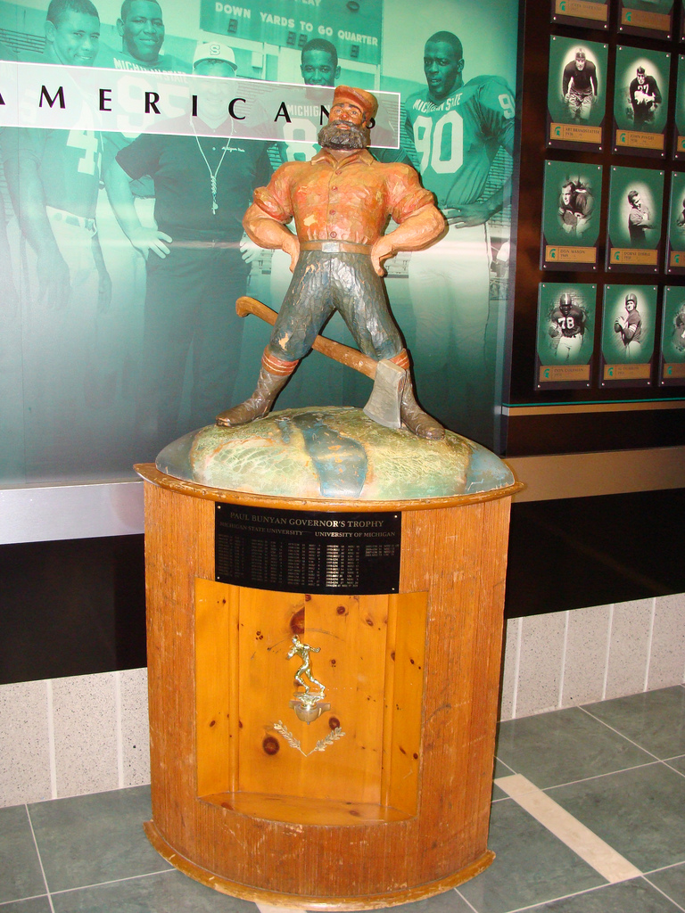 Paul Bunyan Trophy at current home: Michigan State